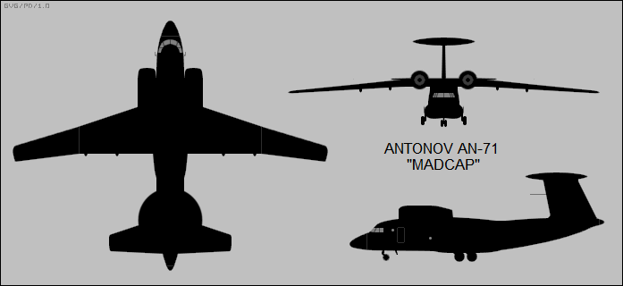 3-View silhouettes of the Antonov An-71